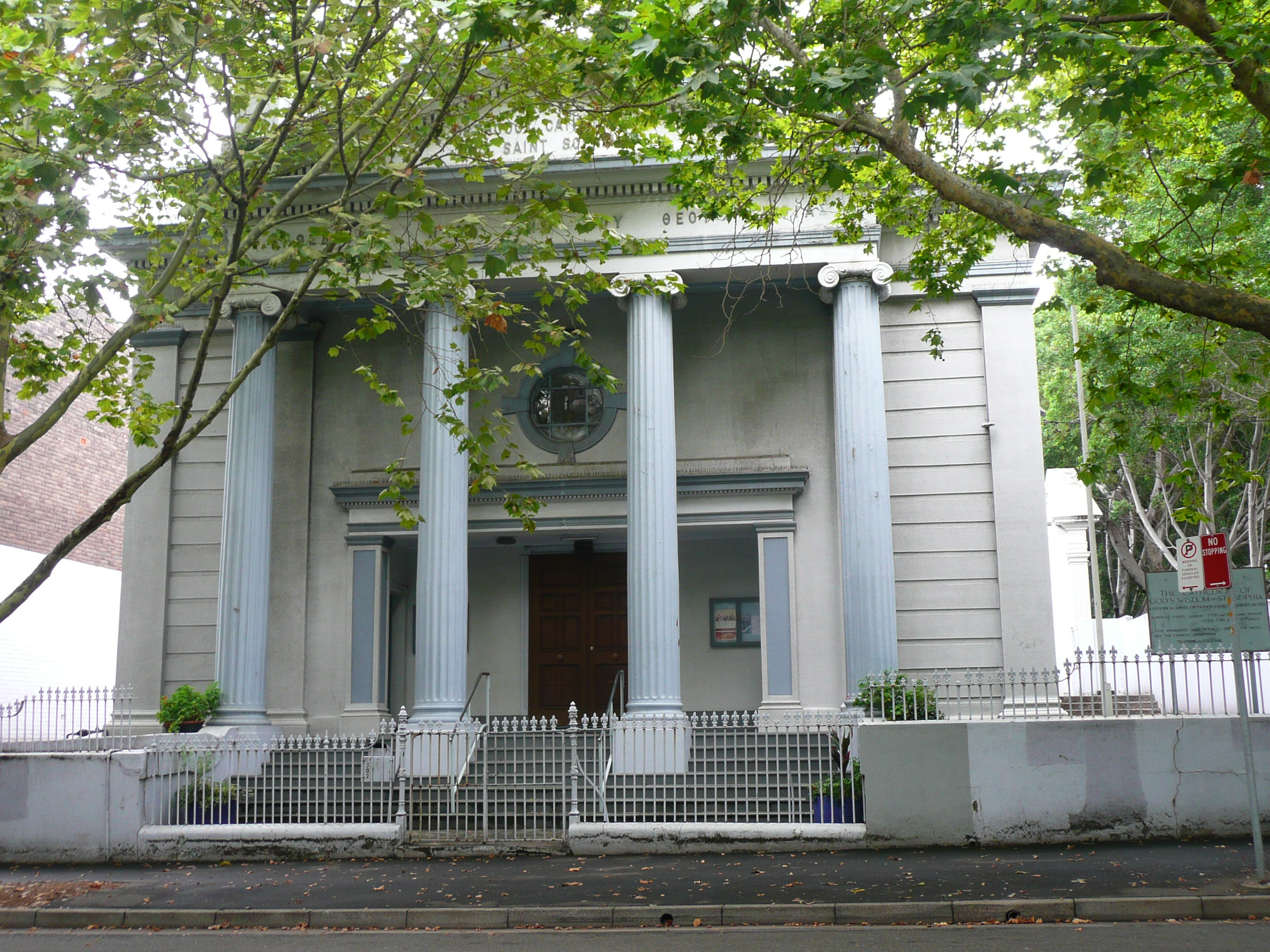 The Greek Saint Sophia Orthodox Cathedral, 302 South Dowling Street, Paddington, New South Wales